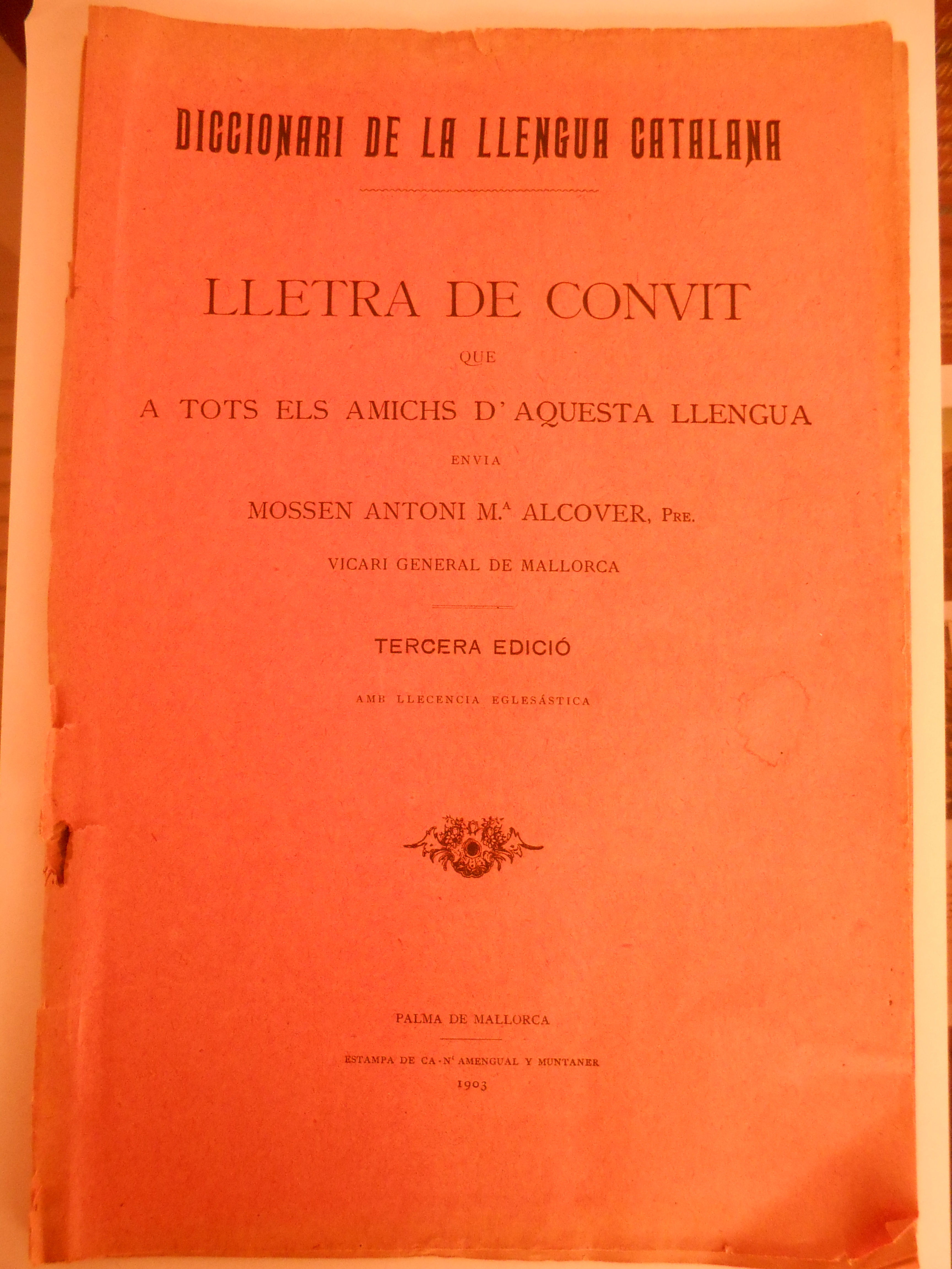 Tercera edició de la "Lletra de convit".